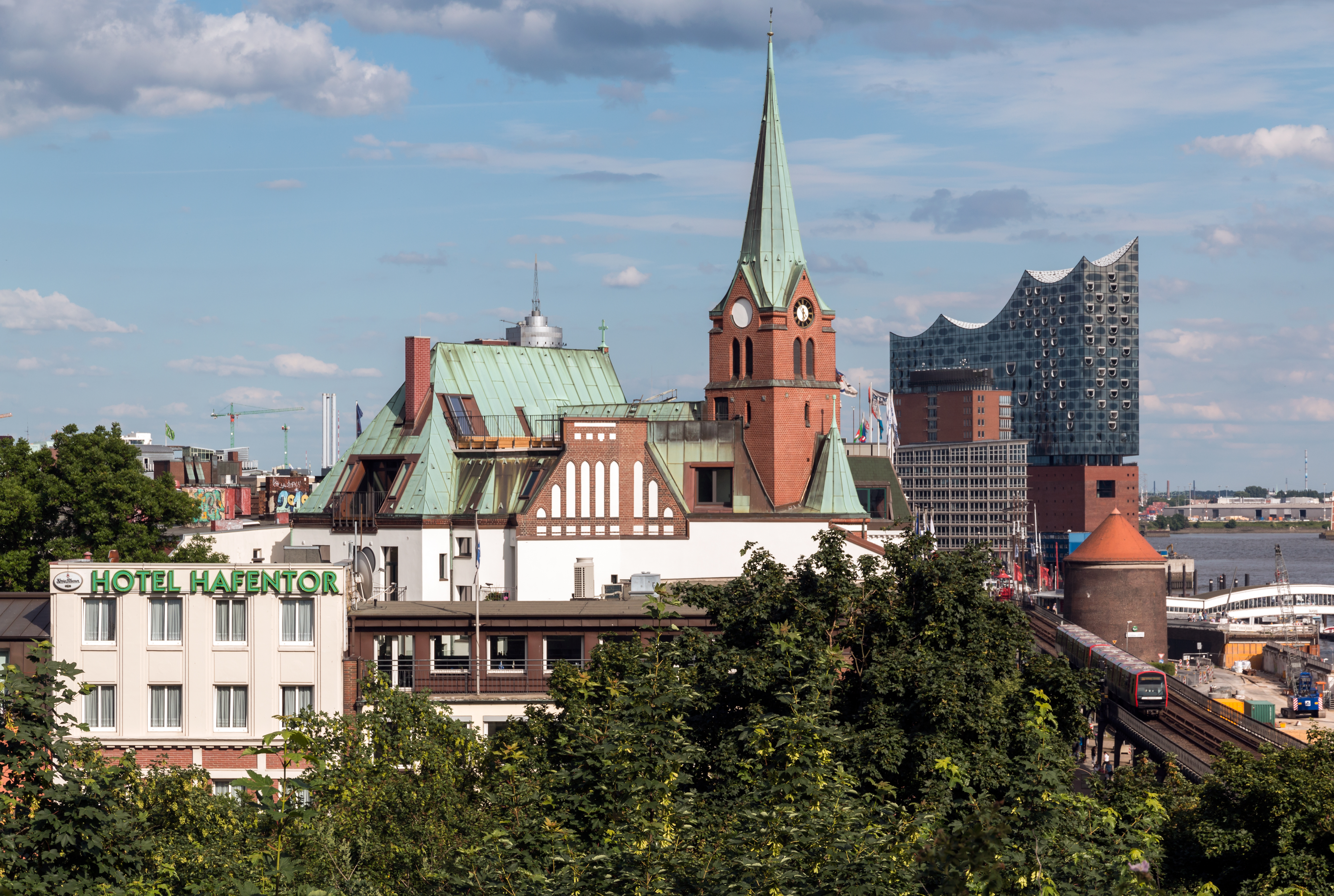 Schwedische Gustaf-Adolphs-Kirche and Elbphilharmonie, Hamburg, Germany This is a photograph of an architectural monument.